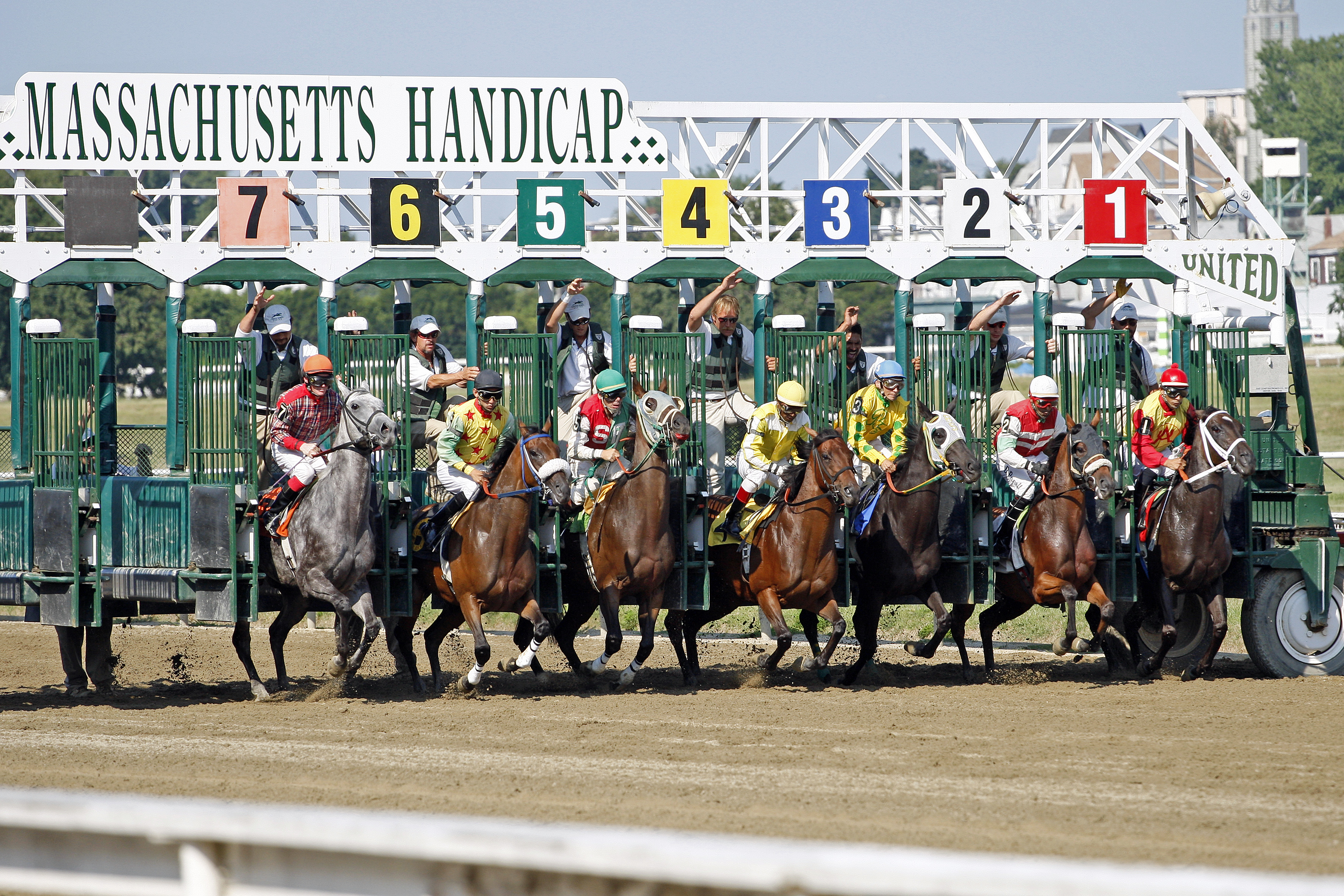 Suffolk Downs starting gate during a live horse race, from August 1 2007.